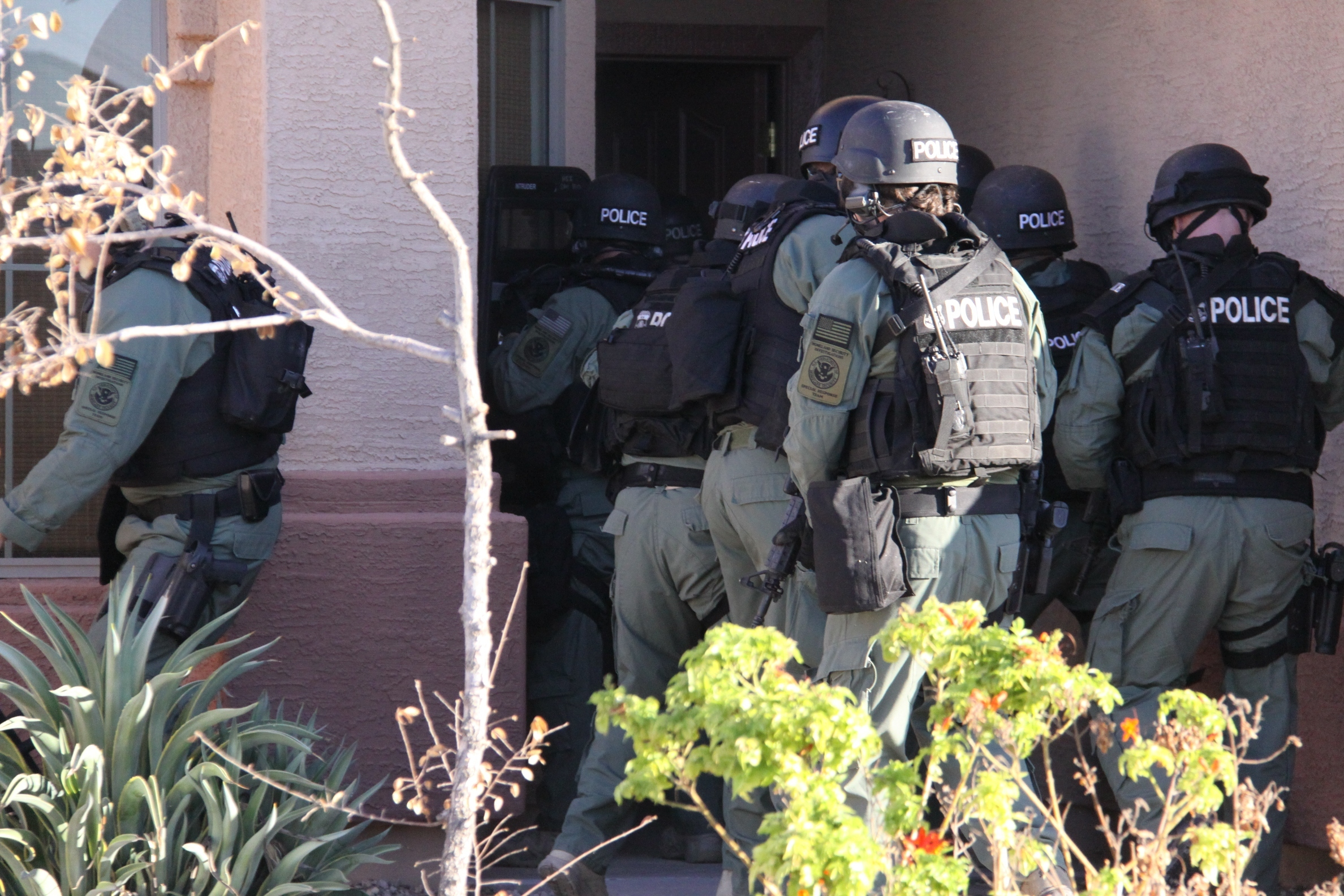 Special Response Team (SRT) within Homeland Security Investigations (HSI) of the U.S. Immigration and Customs Enforcement (ICE) raid drug trafficking compound during Operation Pipeline Express. Federal, state and local authorities announced the results of "Operation Pipeline Express," a 17-month multi-agency investigation responsible for dismantling a massive narcotics trafficking organization in the Arizona's western desert.